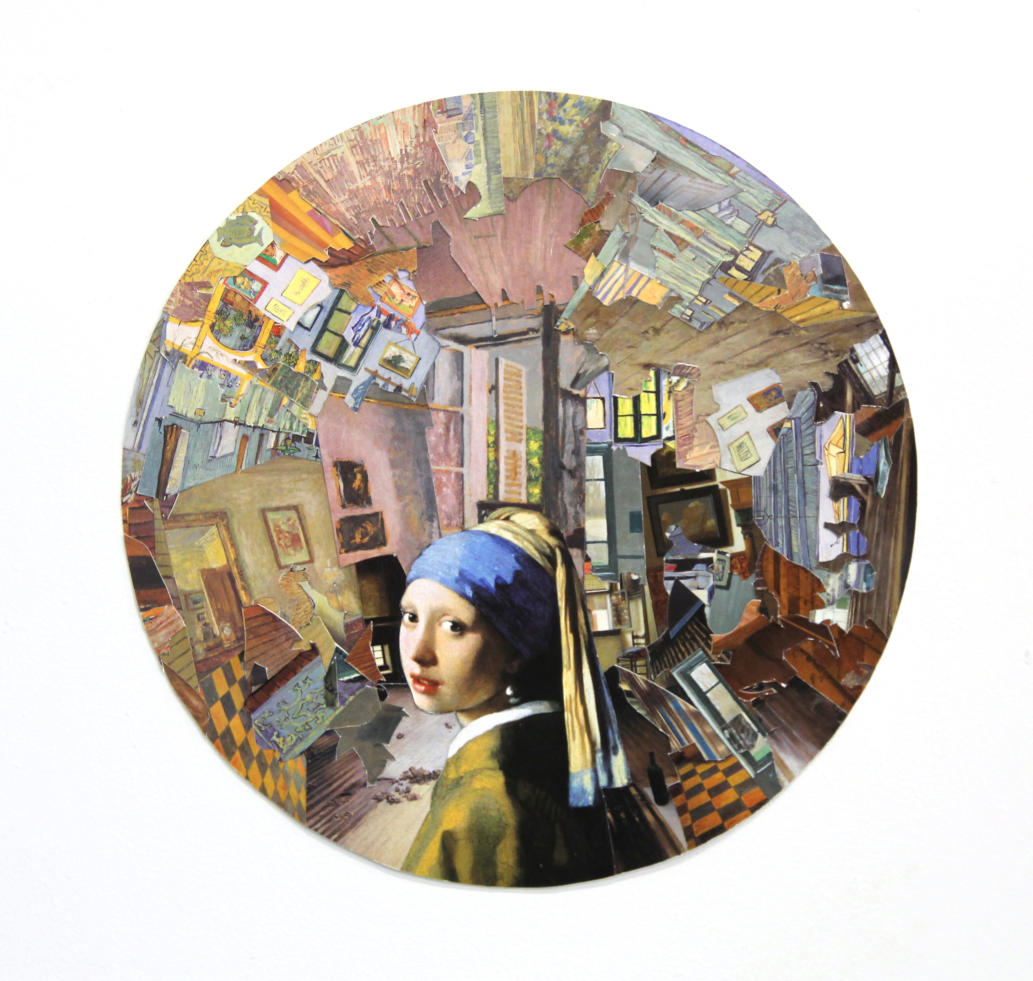 Title: Girl's View (Collage with Vermeer's "Girl with a Pearl Earring" in the centre of "her" room)